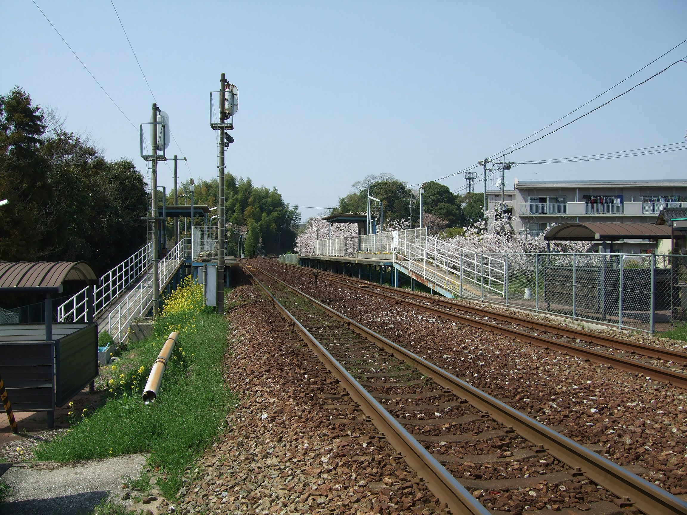 Hitomi Station, Ita Line, Heisei Chikuho Railway, Fukuchi Town, Fukuoka, Japan.